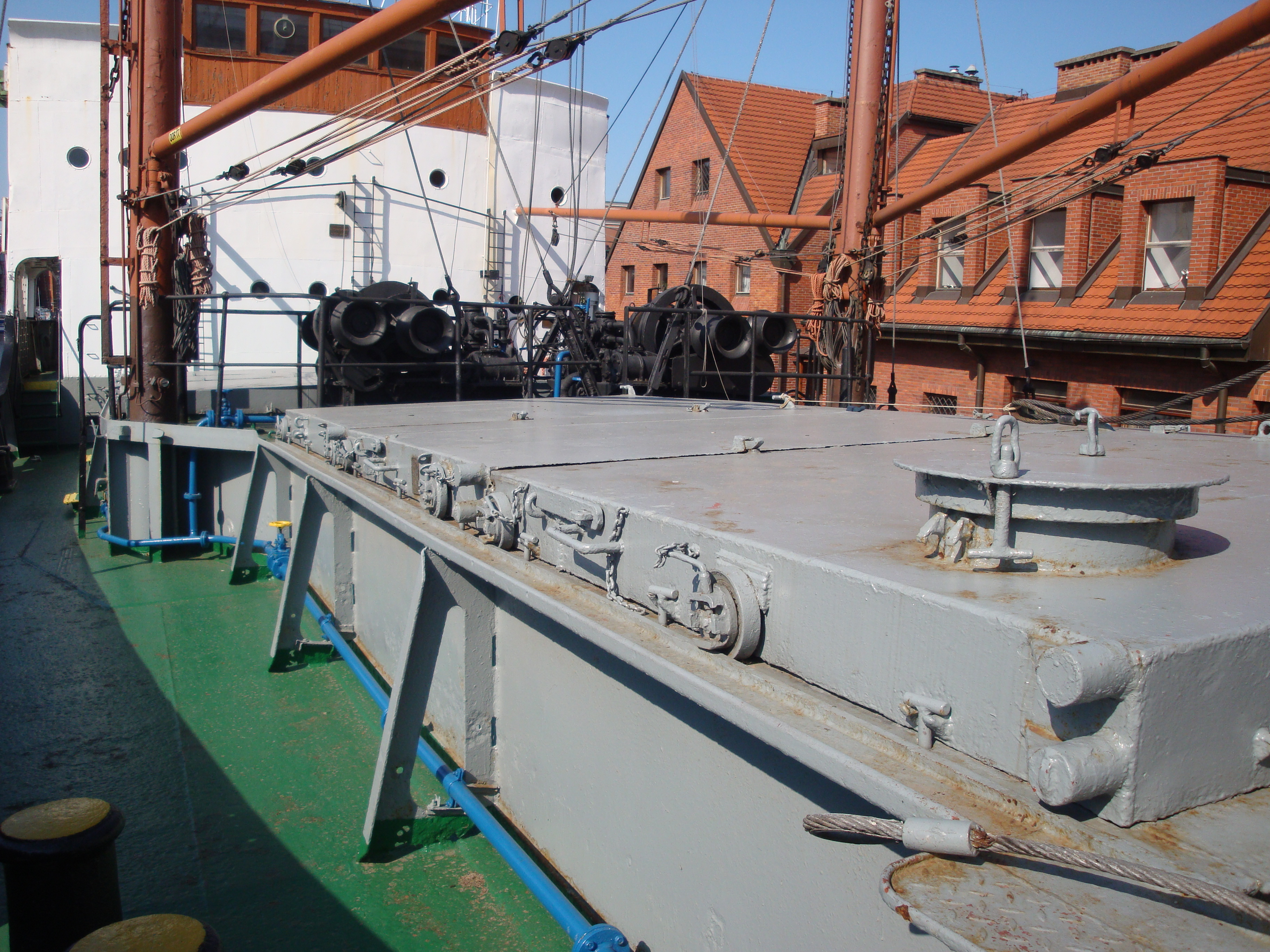 Museal ship S/S Sołdek in Gdańsk, Poland